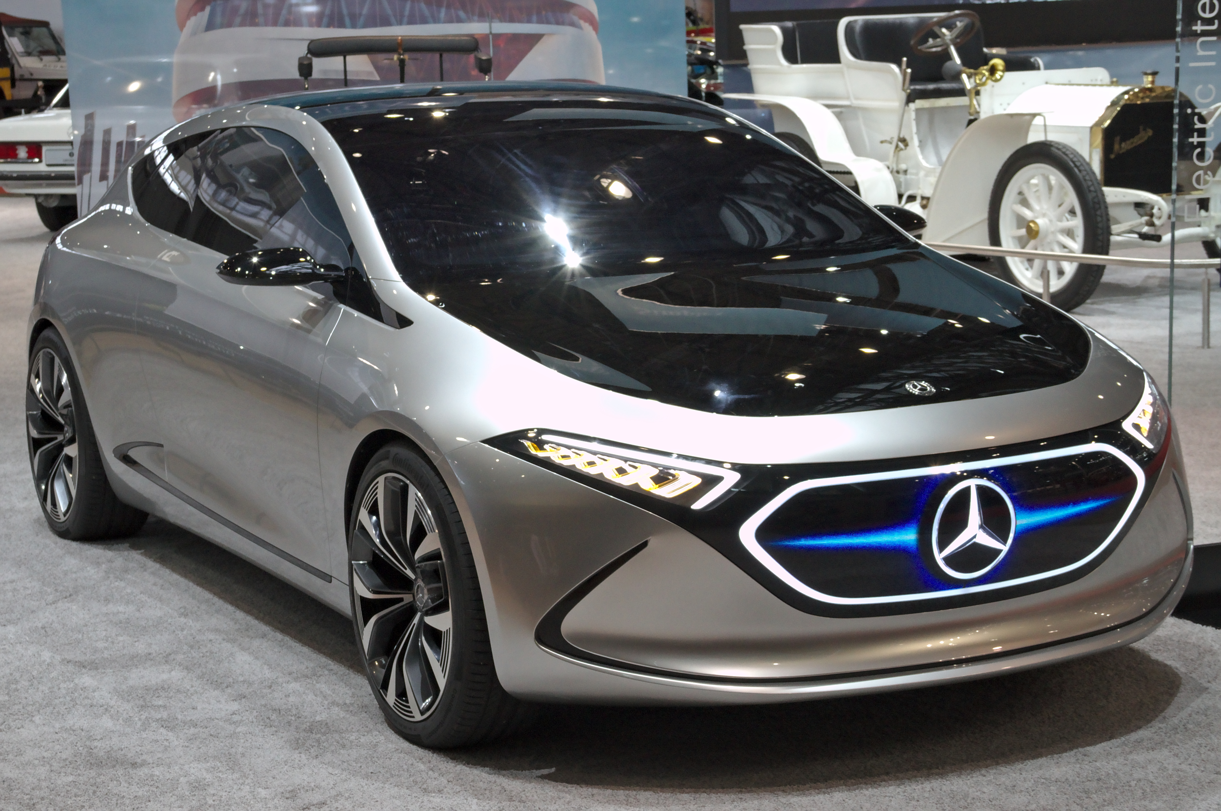 Mercedes-Benz_EQ_A_Concept at Retro Classics 2020